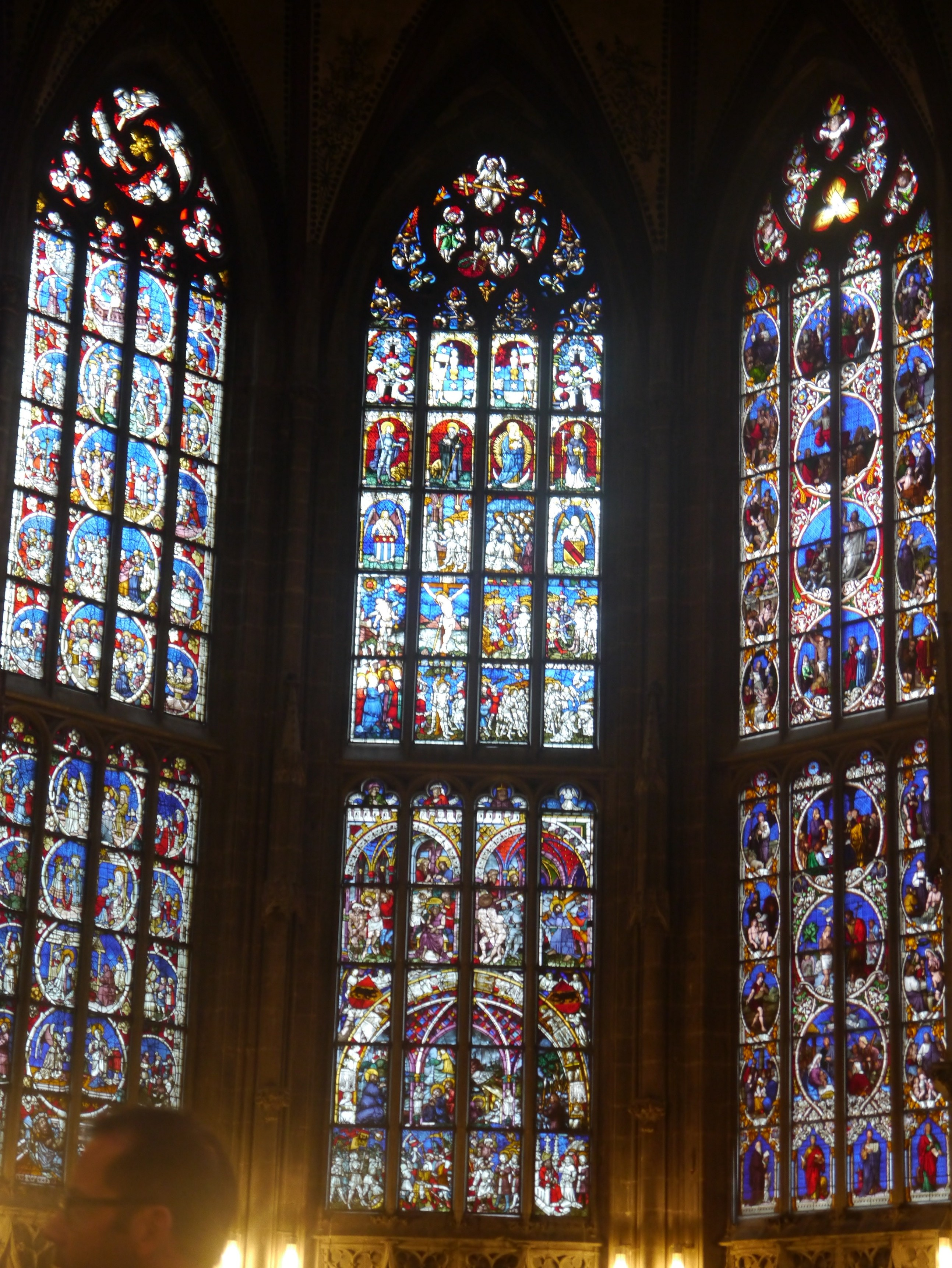 Choir windows of the Minster, Bern, Canton of Bern, Wester Switzerland